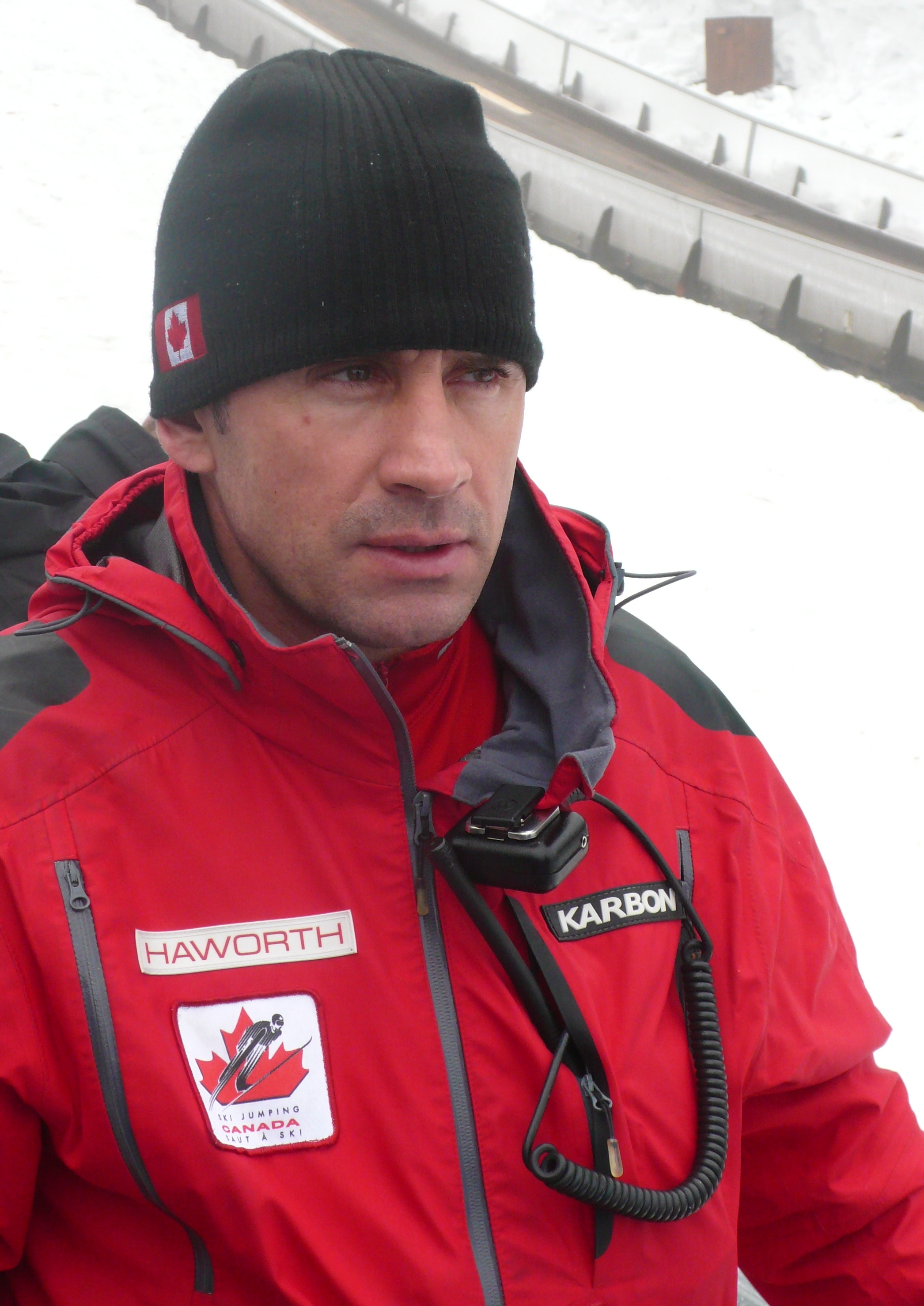 Tadeusz Bafia, coach of the feminine skijumping team from Canada, Braunlage, 2011